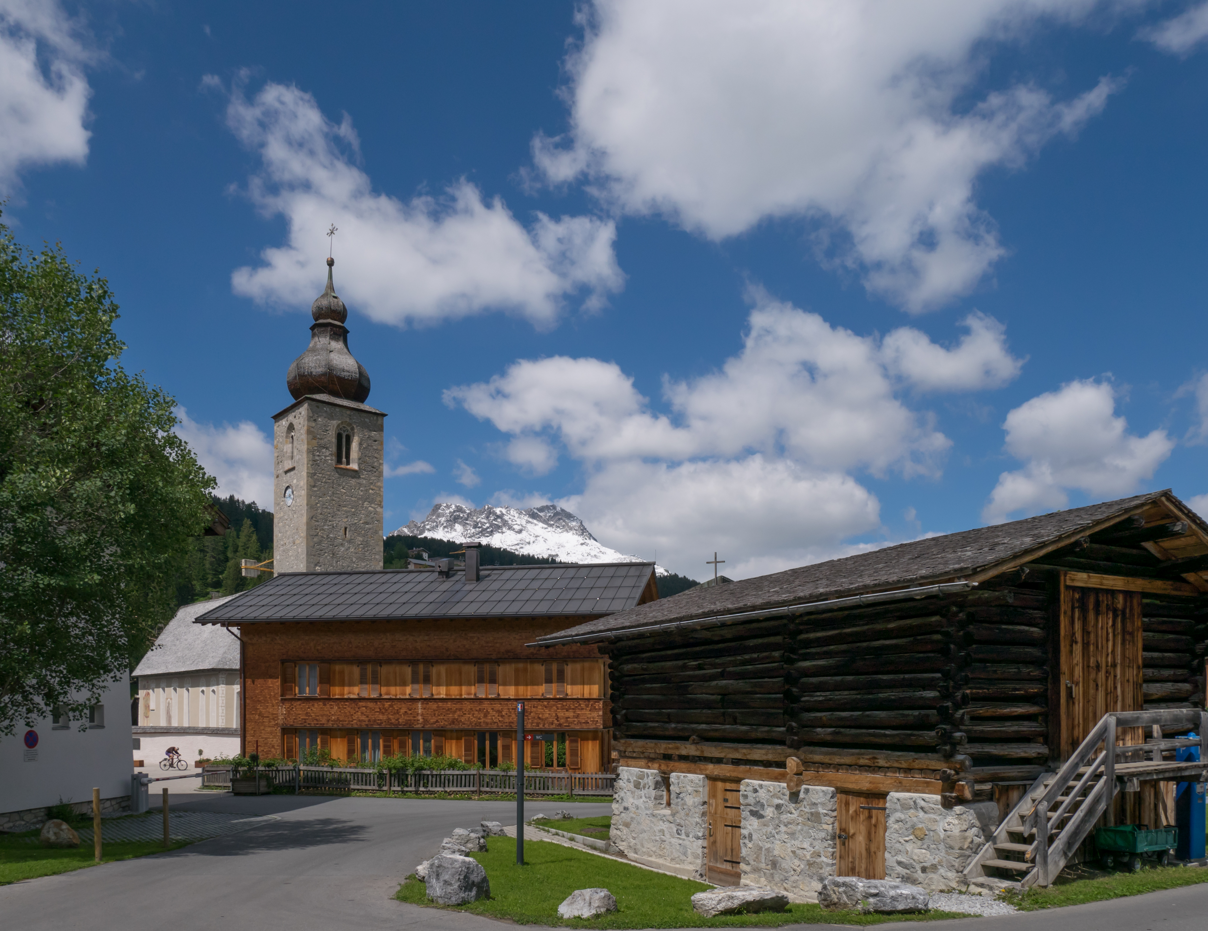 Lech, quarter Anger. Vorarlberg, Austria